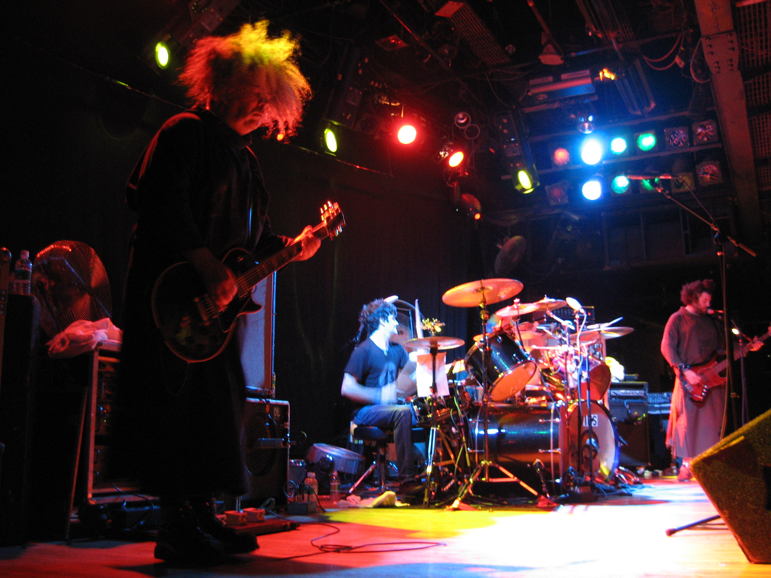 (the) Melvins live in concert